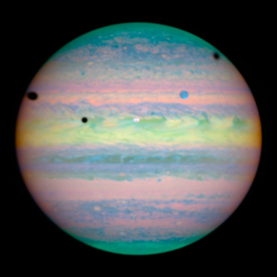 At first glance, Jupiter looks like it has a mild case of the measles. Five spots -- one colored white, one blue, and three black -- are scattered across the upper half of the planet. Closer inspection by NASA's Hubble Space Telescope reveals that these spots are actually a rare alignment of three of Jupiter's moons -- Io, Ganymede, and Callisto -- across the planet's face. In this composite image from near-infrared light, the telltale signatures of this alignment are the shadows (the three black circles) cast by the moons. Io's shadow is located just above center and to the left; Ganymede's on the planet's left edge; and Callisto's near the right edge. Only two of the moons, however, are visible in this image. Io is the white circle in the center of the image, and Ganymede is the blue circle at upper right. Callisto is out of the image and to the right.